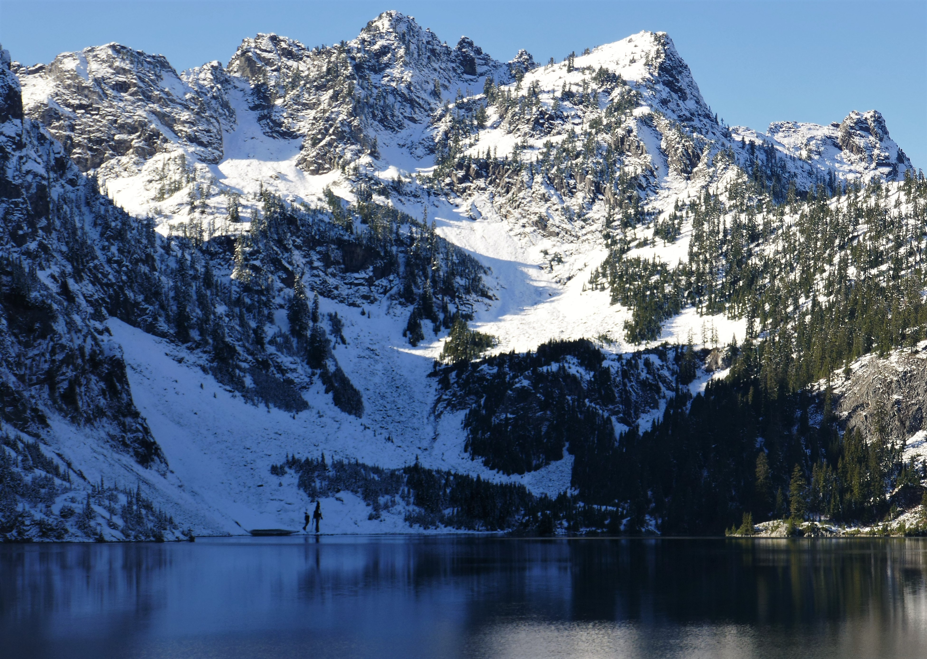 snowy Mount Roosevelt